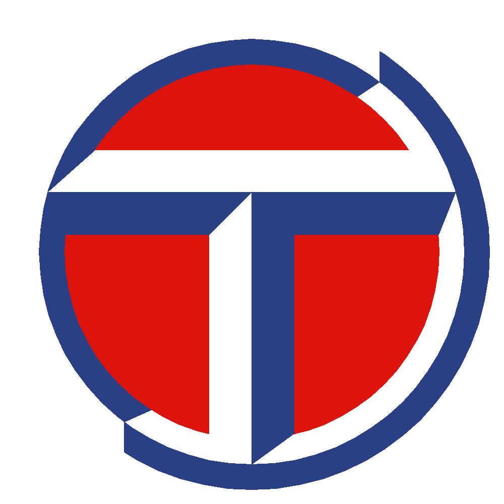 Logo for Talbot Automobile Brand